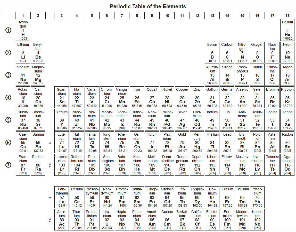 Periodic table (2018, 18-column, group 3=Sc/Y/La/Ac), from enwiki